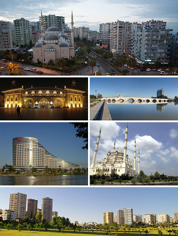 Adana collage